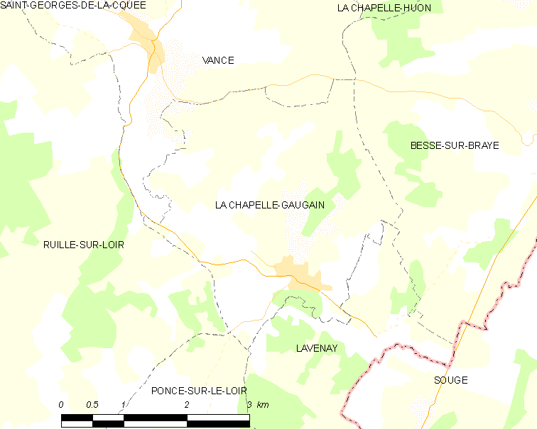 Map of French municipality